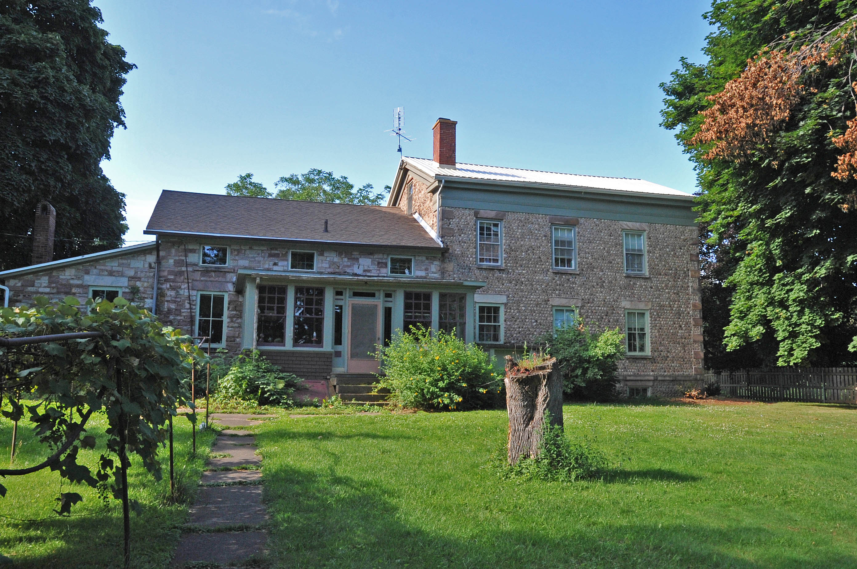 ESTABLISHED IN 1828 BY MOSES BACON AND HAS BEEN IN THE SAME FAMILY SINCE. THE COBBLESTONE HOUSE WAS BUILT IN 1844 BY ELIAS BACON, MOSES BACON’S BROTHER. MARY AND RUTH HARDING ESTABLISHED A DAIRLY OPERATION IN 1914